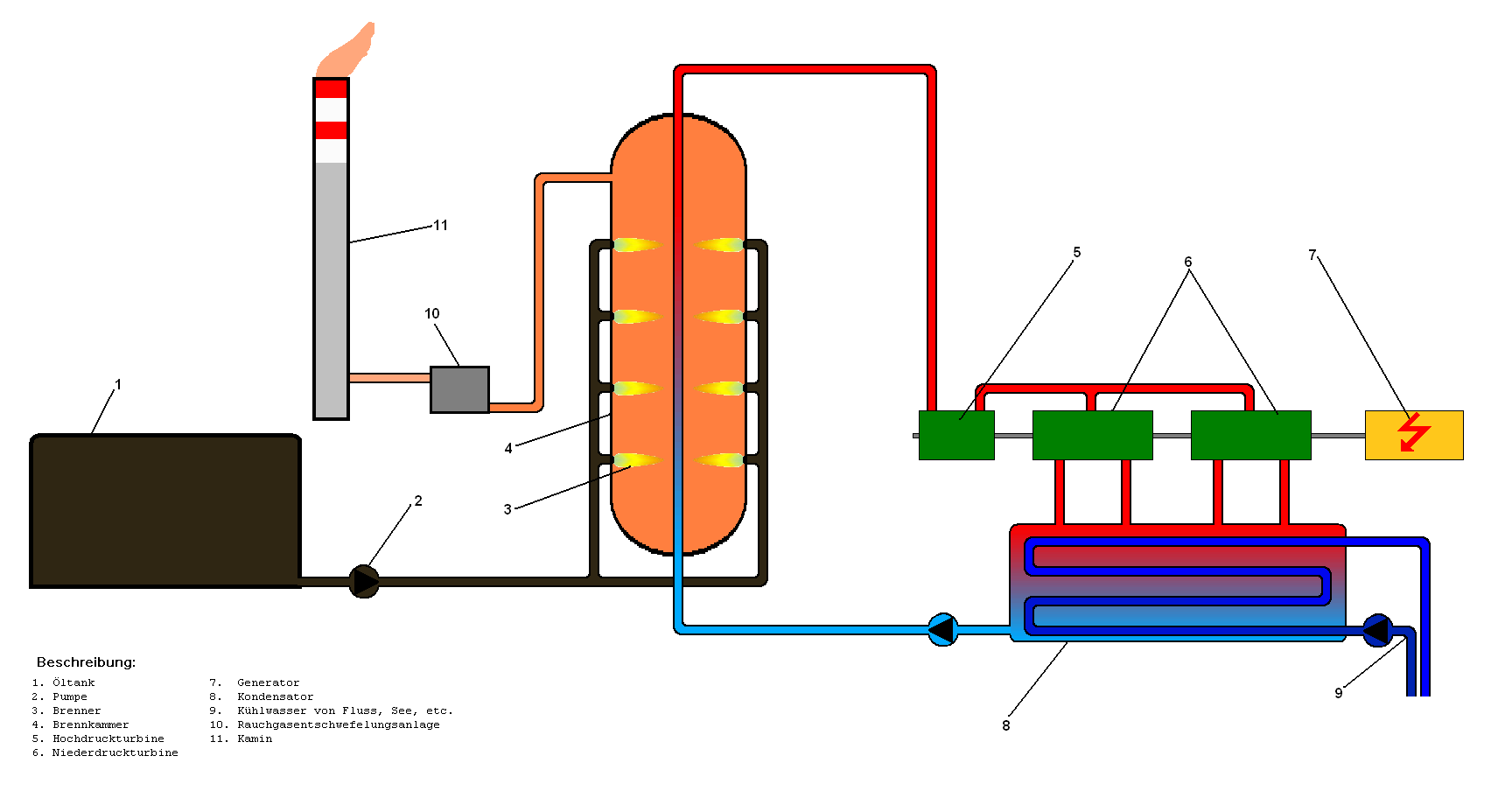 Oil power plant